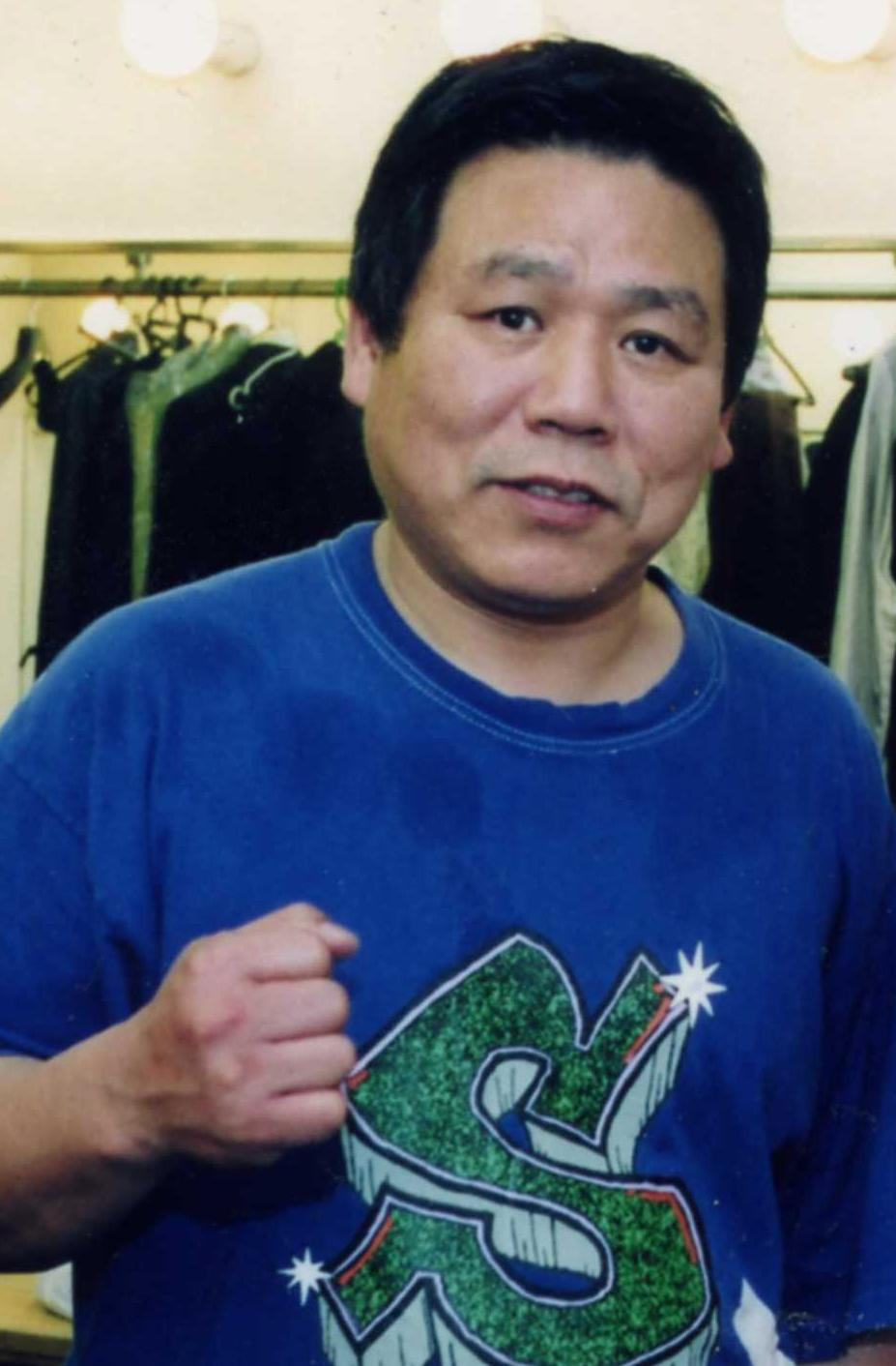 Mr. Apollo Yoshio